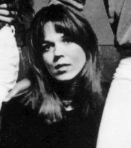 Photo of the musical group Starland Vocal Band.